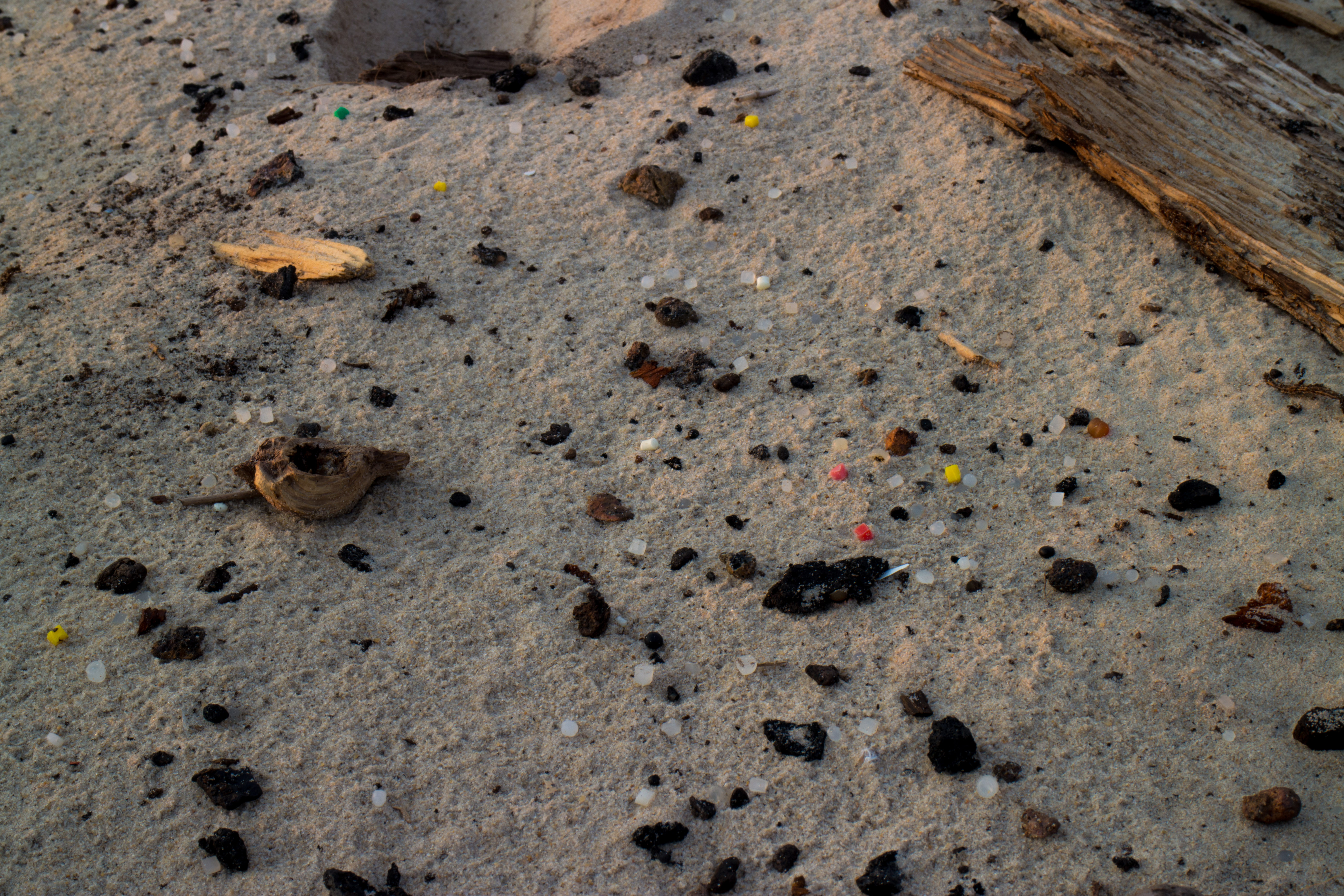 Plastic Pellets in the upper shoreline on Scharhörn